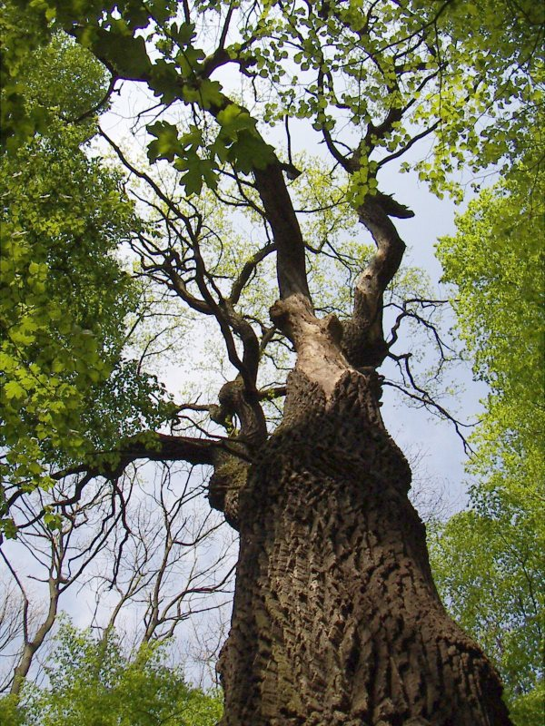 An old oak tree (round 200 yrs) growing in Nedosinsky haj (forest) near Litomysl in Eastern Bohemia.